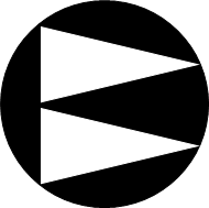 125 Dinghy Sail Emblem